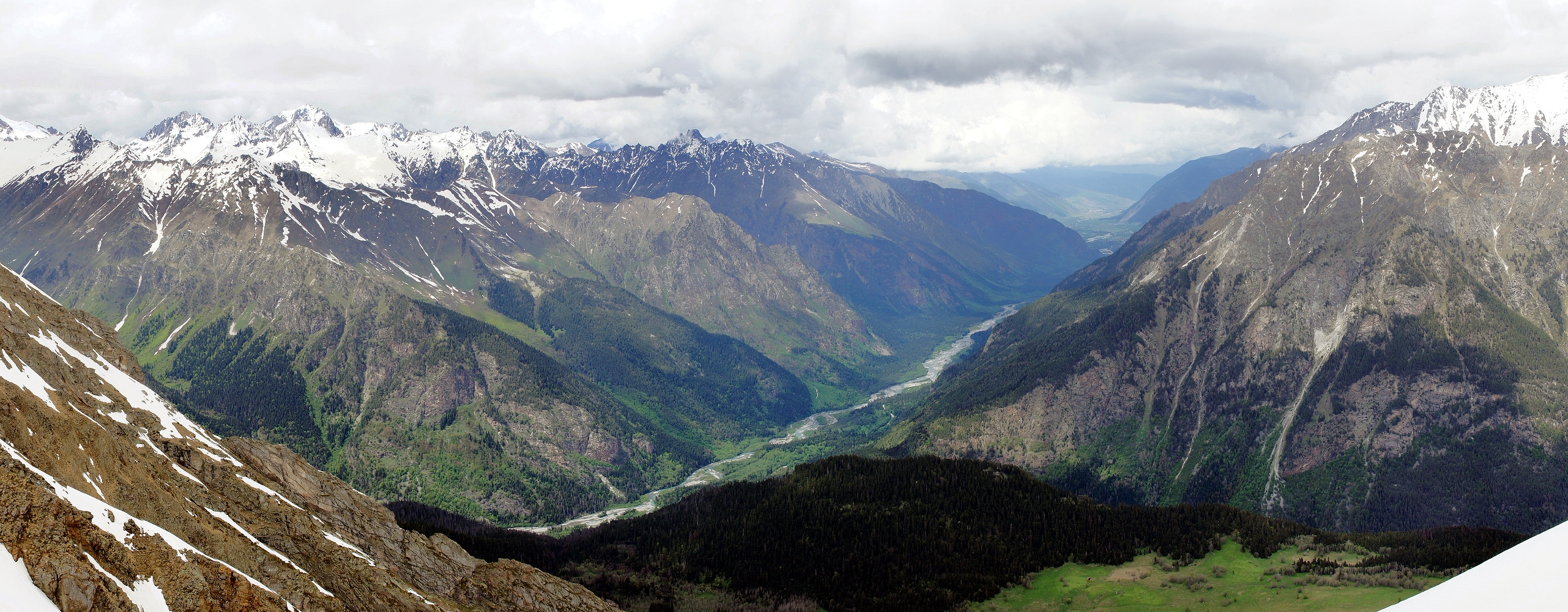 Teberda river, Caucasus.